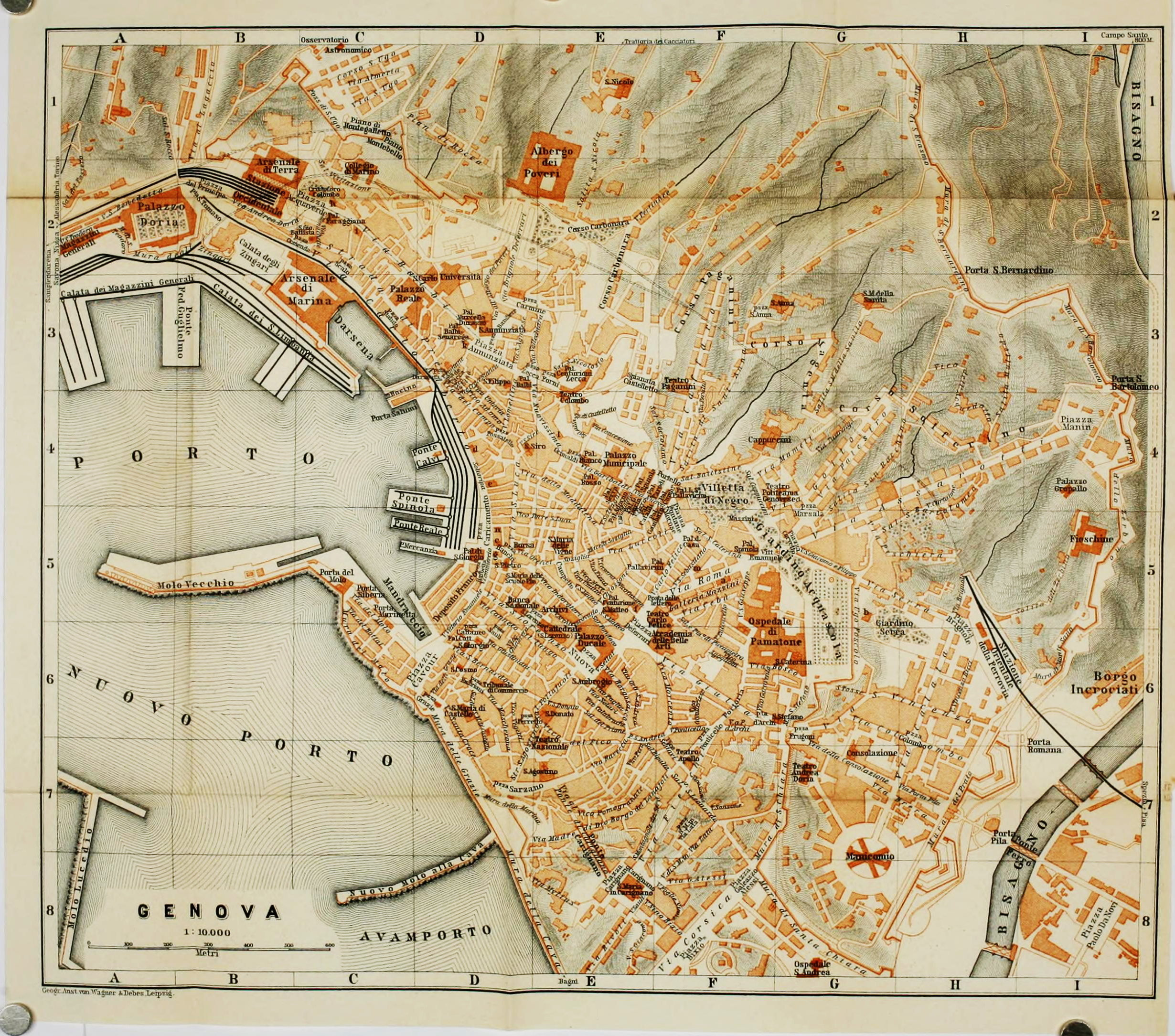 Map of Genoa, from Karl Baedeker (1801 - 1859), Italy handbook for travellers, vol I, 7ed, 1886, from